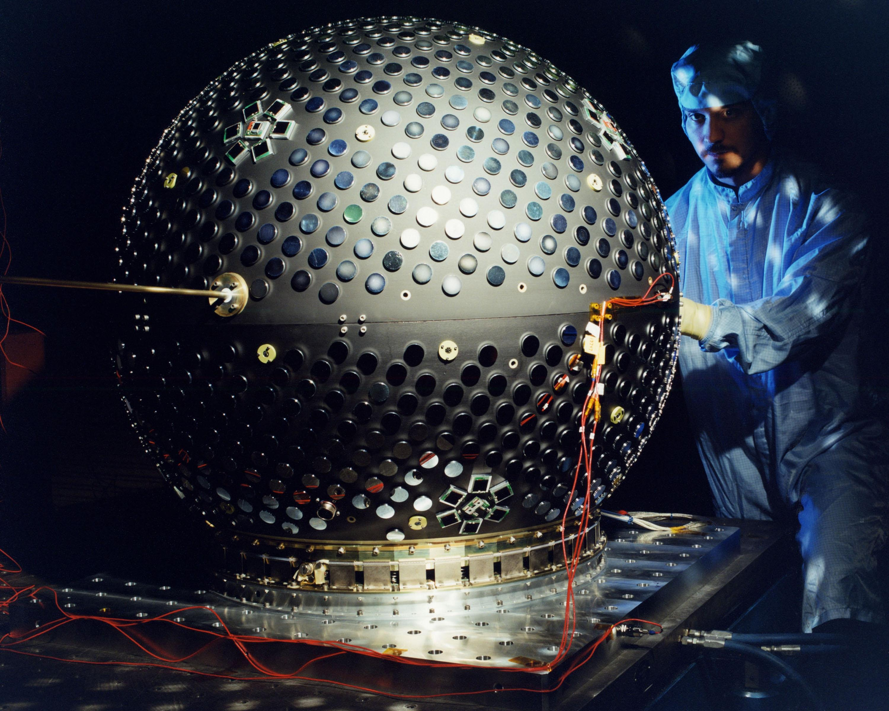 KODIAK ISLAND, Alaska -- A technician performs final testing on Starshine 3 at the Naval Research Laboratory in Washington, D.C., to prepare for the launch of the Kodiak Star at Kodiak Island, Alaska. The first orbital launch to take place from Alaska's Kodiak Launch Complex, Kodiak Star is scheduled to lift off on a Lockheed Martin Athena I launch vehicle on Sept. 17 during a two-hour window that extends from 5:00 to 7:00 p.m. ADT. The payloads aboard include the Starshine 3, sponsored by NASA, and the PICOSat, PCSat and Sapphire, sponsored by the Department of Defense (DoD) Space Test Program.